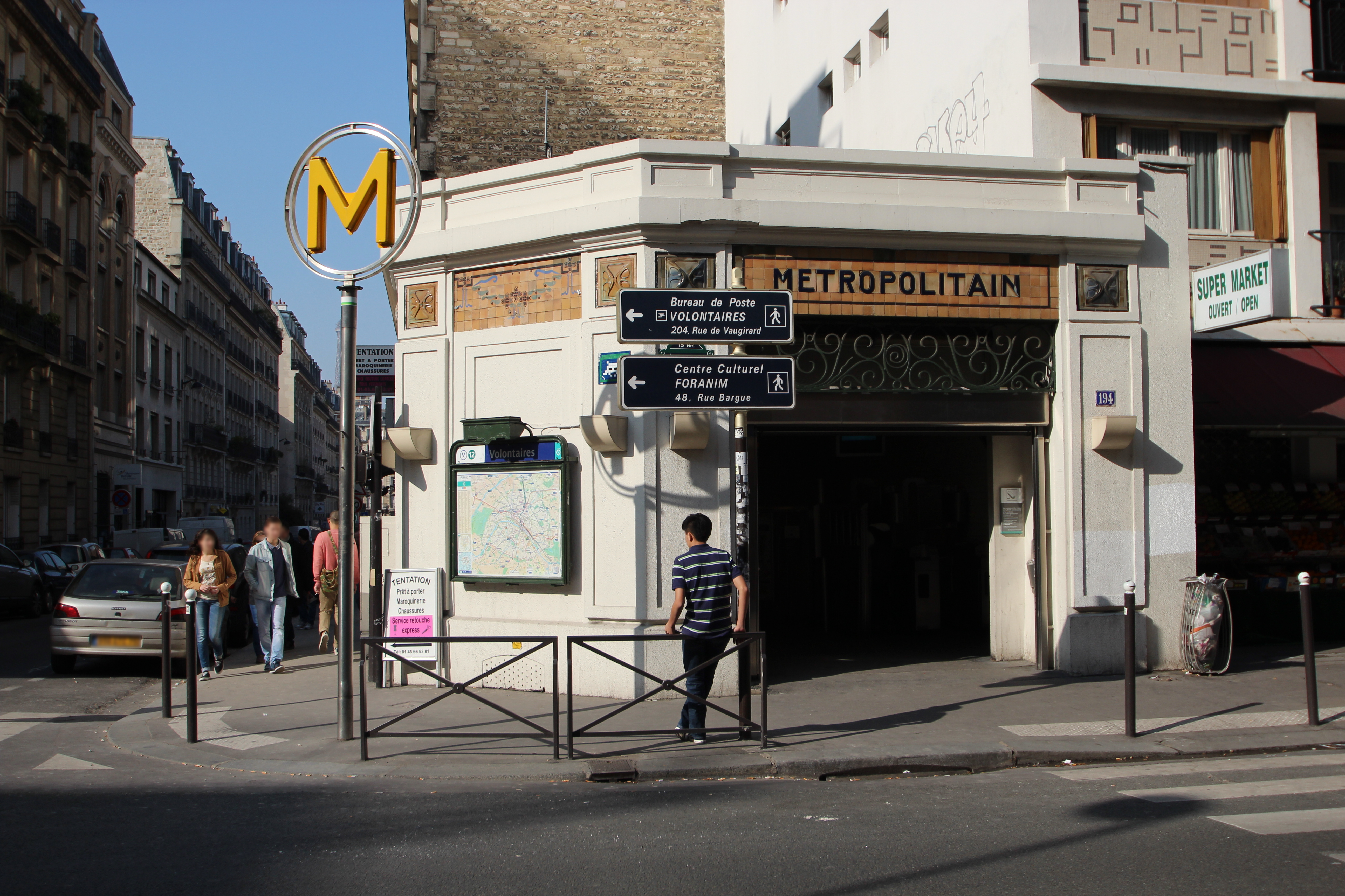 Volontaires subway station at the intersection of Volontaires street and Vaugirard street in Paris, France.